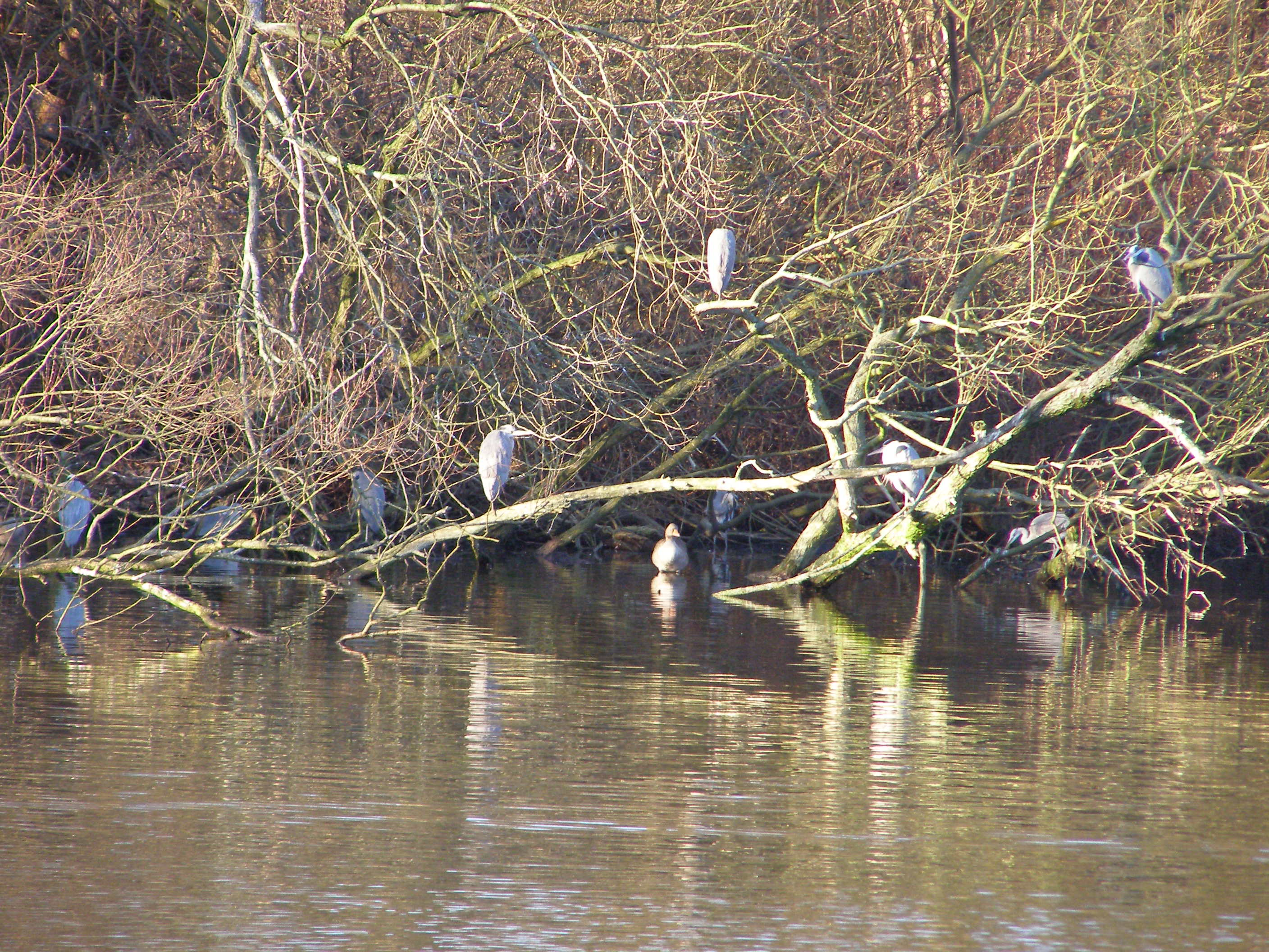 9 of 18 grey herons (Ardea cinerea) by the Eppendorf mill pond in Hamburg-Eppendorf on December 26, 2008